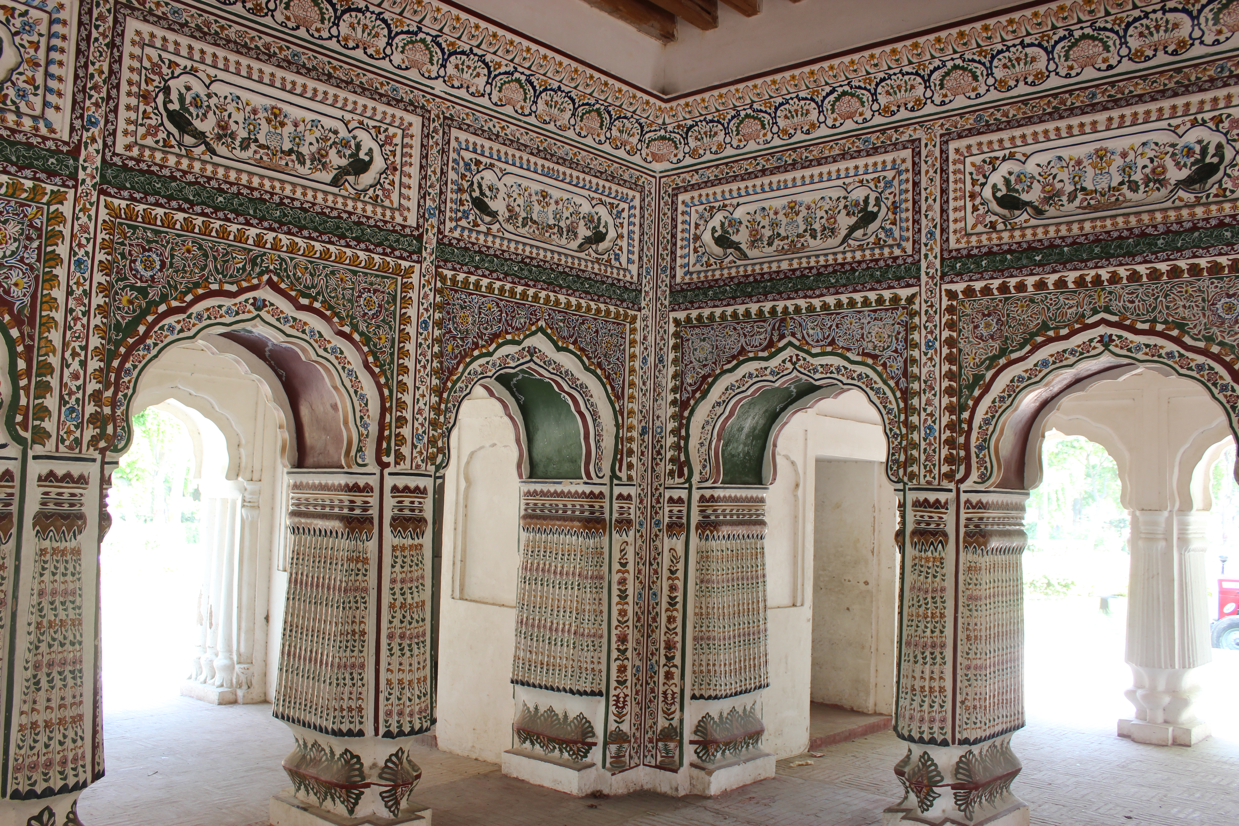 This is a photo of a monument in Pakistan identified as the PB-25